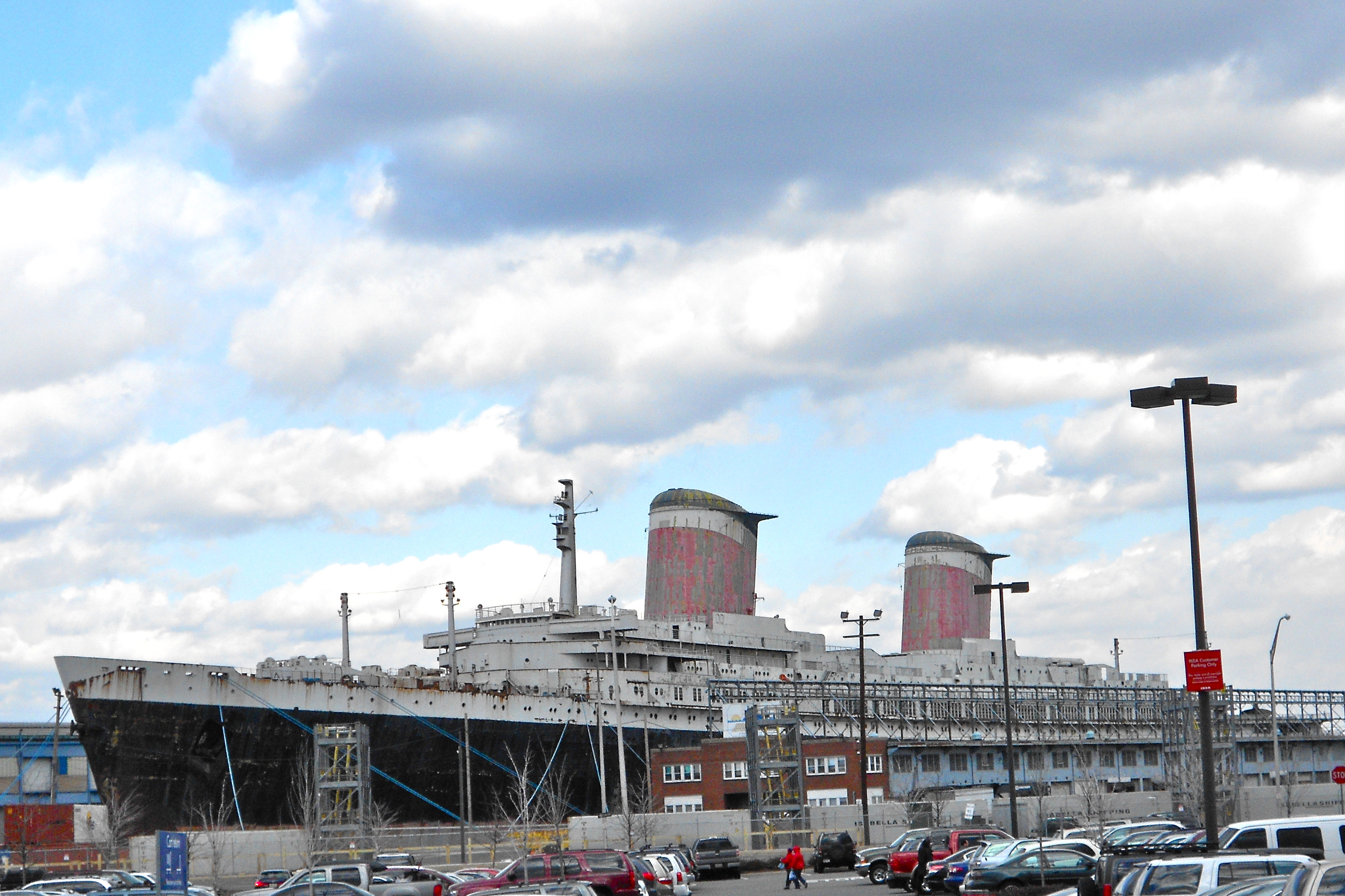 The SS United States in Philadelphia February 25, 2012